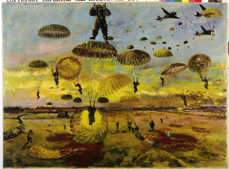 The Drop image: An aerial view of a sky filled with soldiers parachuting down into fields below. The planes from which they have jumped fly off to the top right hand corner of the composition, and the sun sets across the sky in the background.